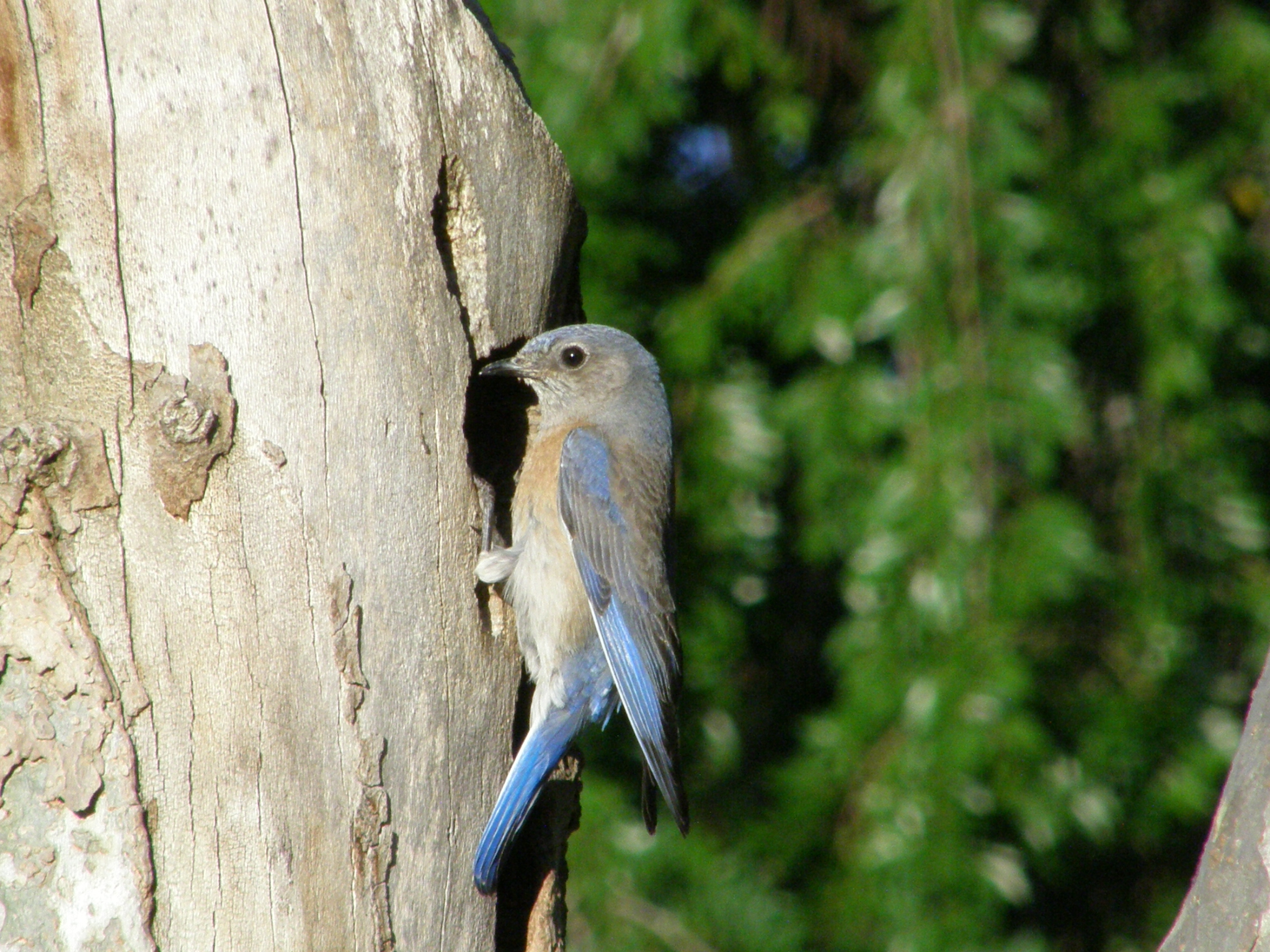 Western Bluebird (Sialia Mexicana) Female feeding young. Sunnyvale, California